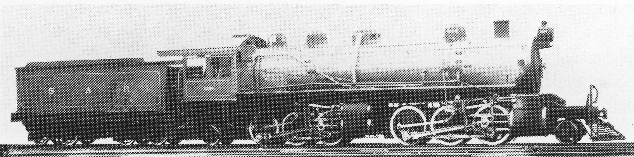 SAR Class MG 1628 (2-6-6-2), ex CSAR 1024